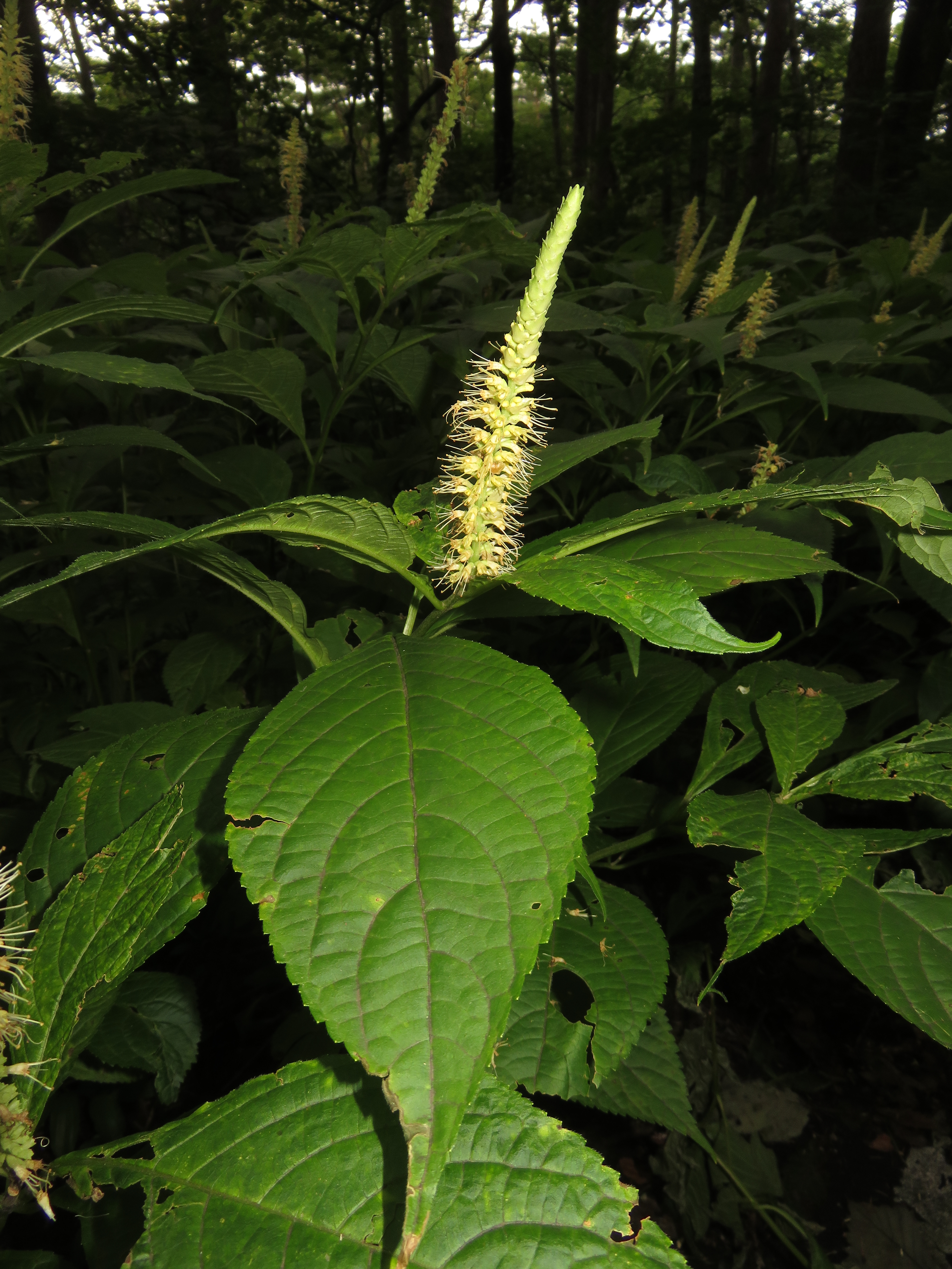 Leucosceptrum japonicum, Fukushima city, Fukushima pref., Japan